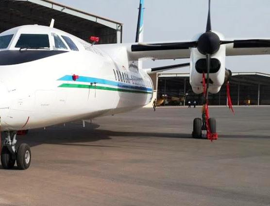 Djiboutian Xian MA60